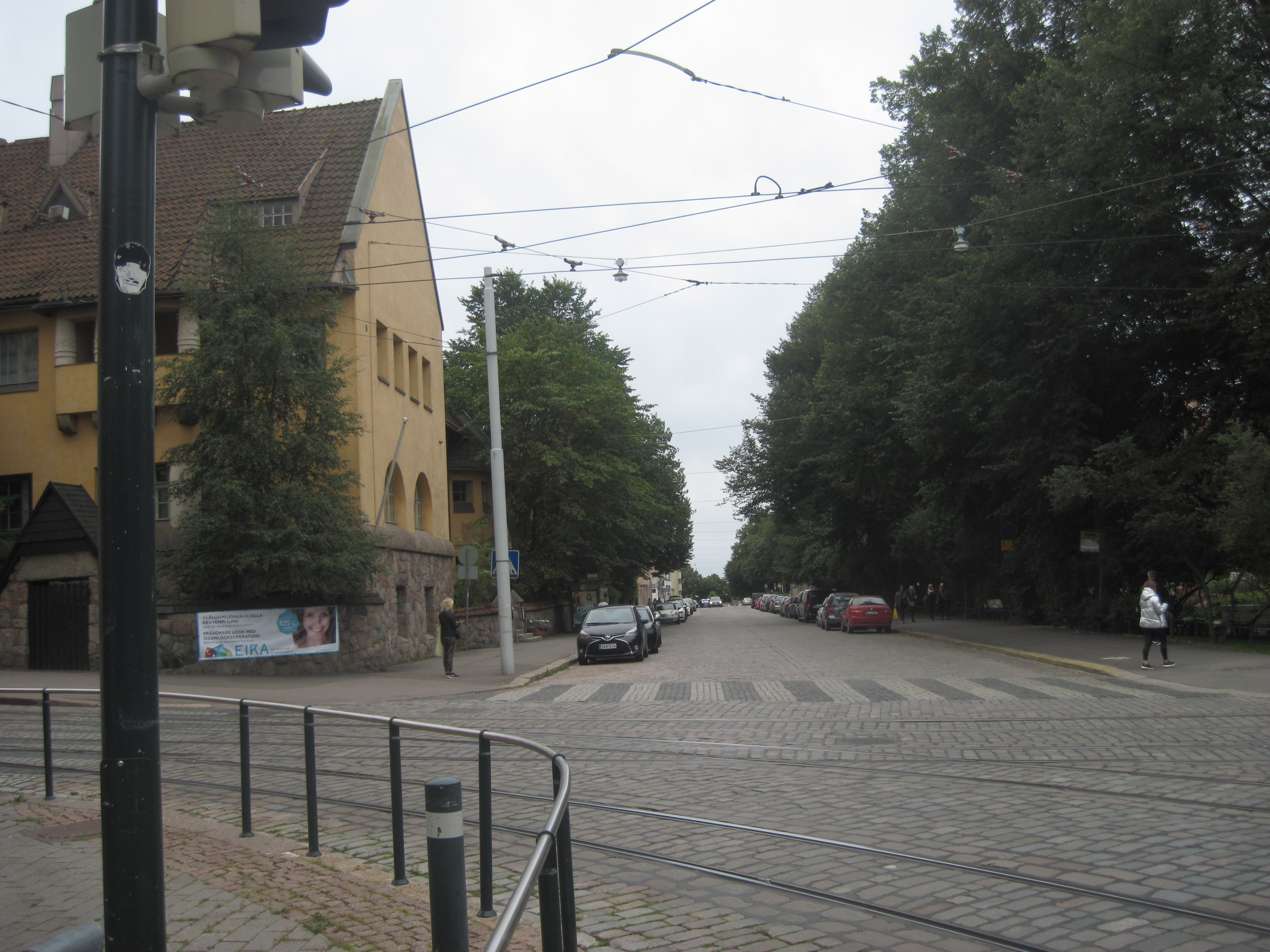 Laivurinkatu in Helsinki, southward from the corner of Tehtaankatu